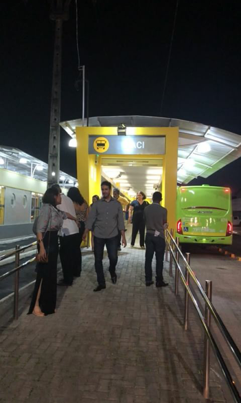 Estação Saci